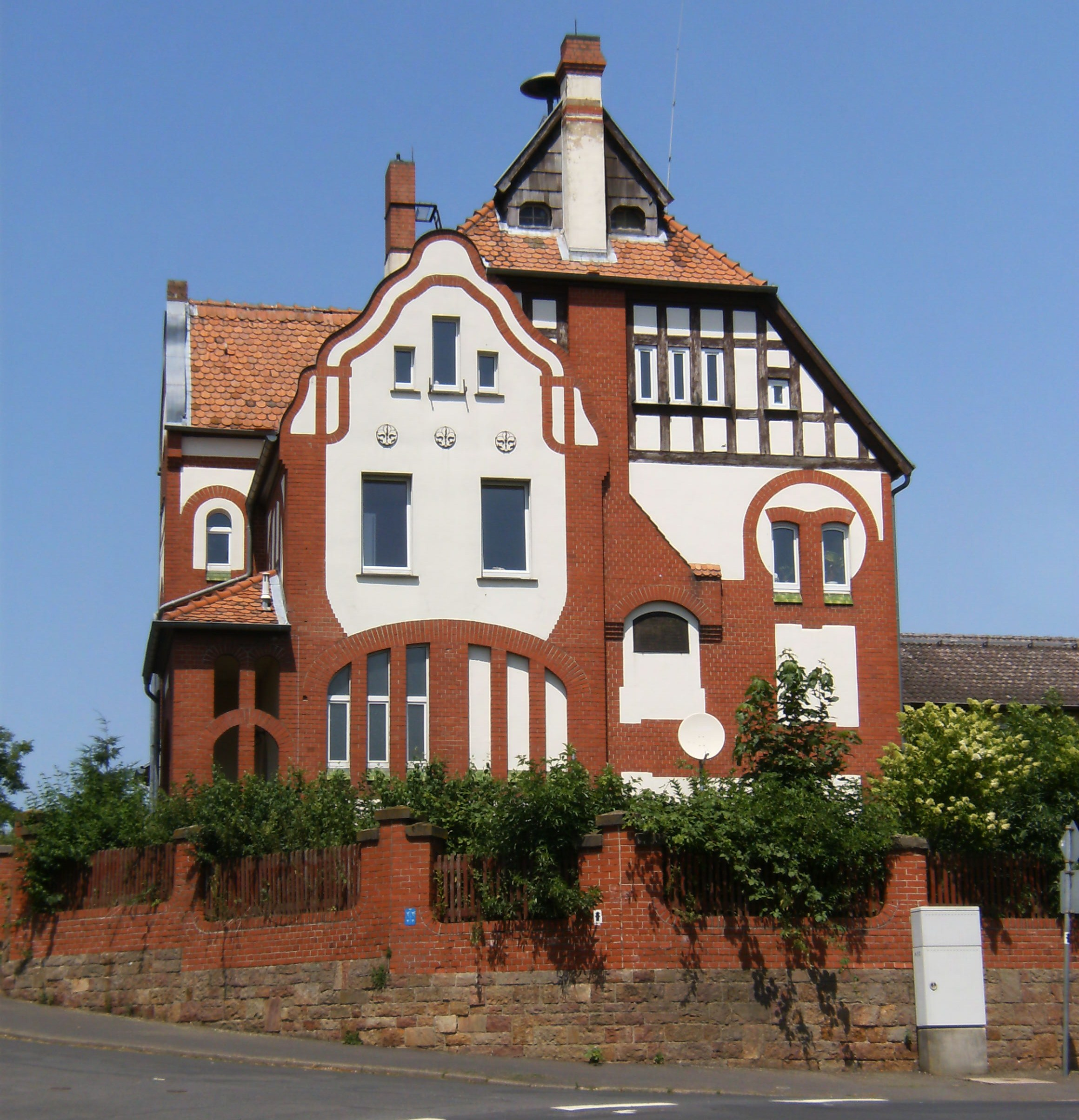 Lich-Birklar (Hesse), former school building.